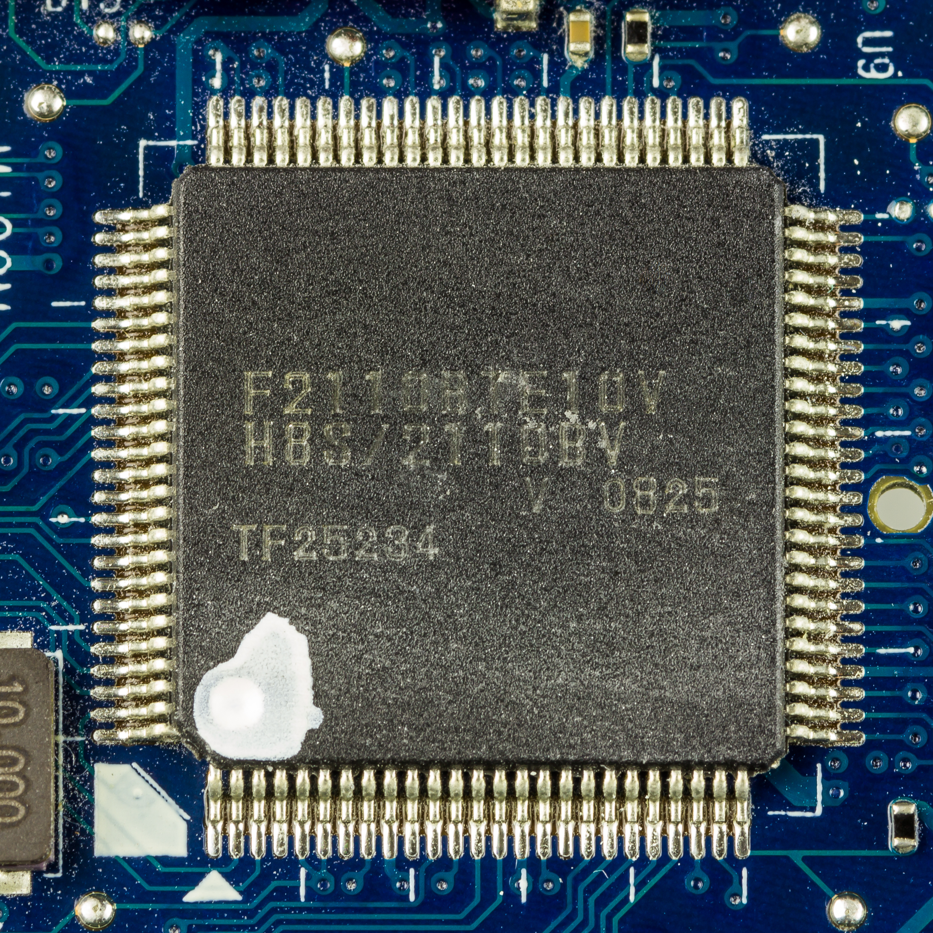 Samsung NC10 - motherboard - Renesas H8S/2110BV - Microcontroller